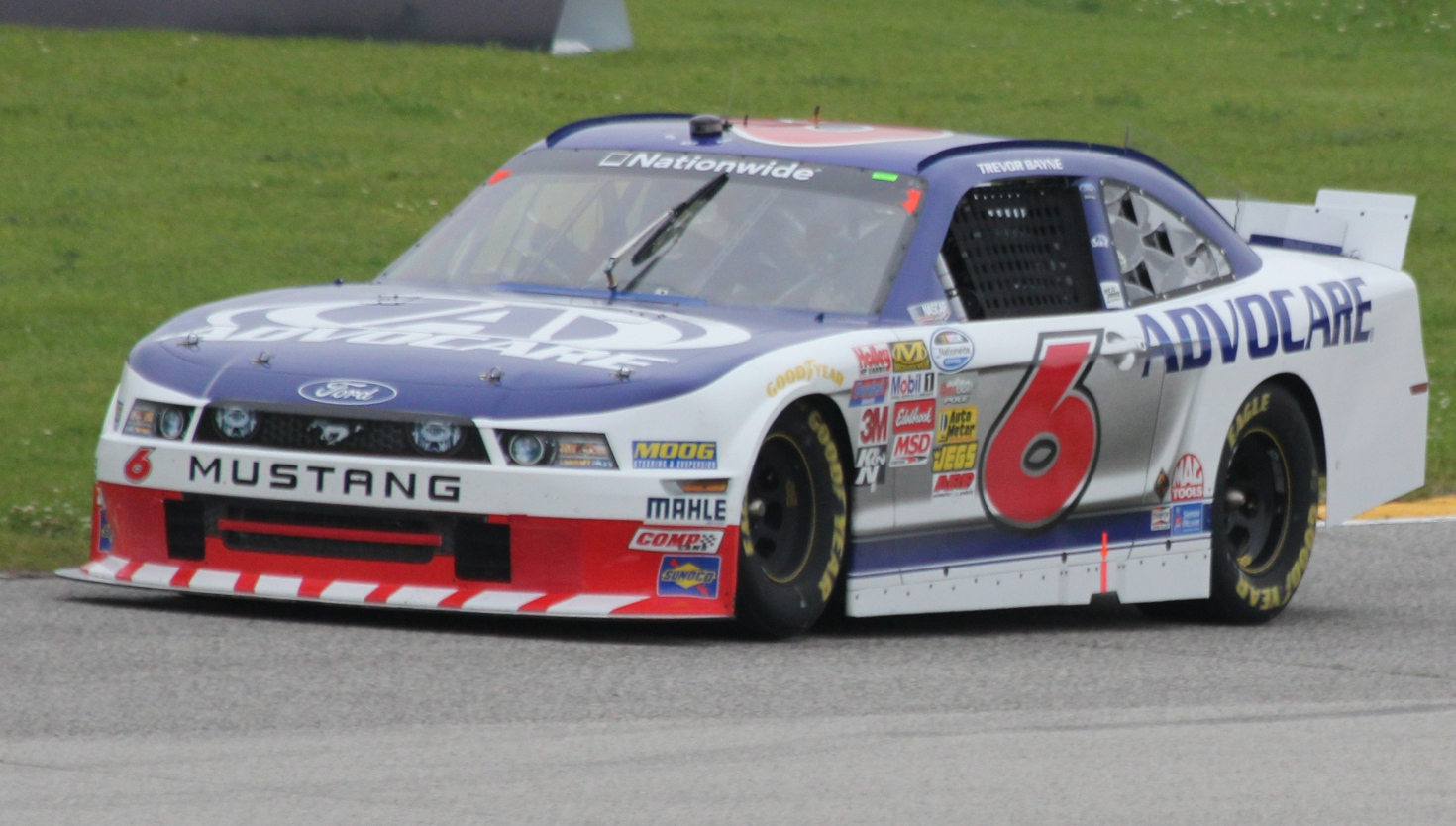 The drivers side of Trevor Bayne Nationwide car during the 2014 Gardner Denver 200 at Road America. Taken racing up the hill between turns 5 and 6.